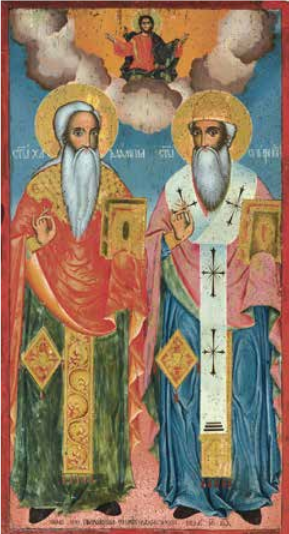 Theodosiy_of_Veles,_icon,_1824,_Old_Church_in_Jagodina_in_Kalenić_Monastery_treasury